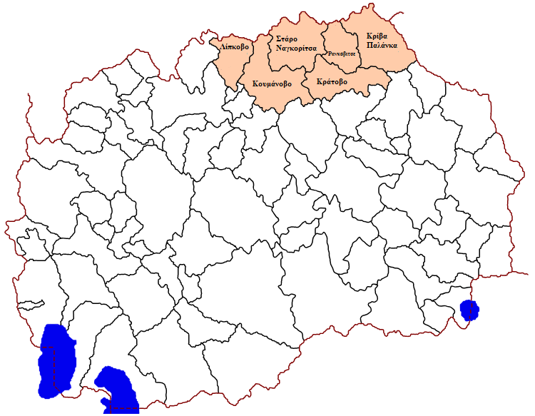 The municipalities of Northeastern Statistical Region of North Macedonia in Greek language.